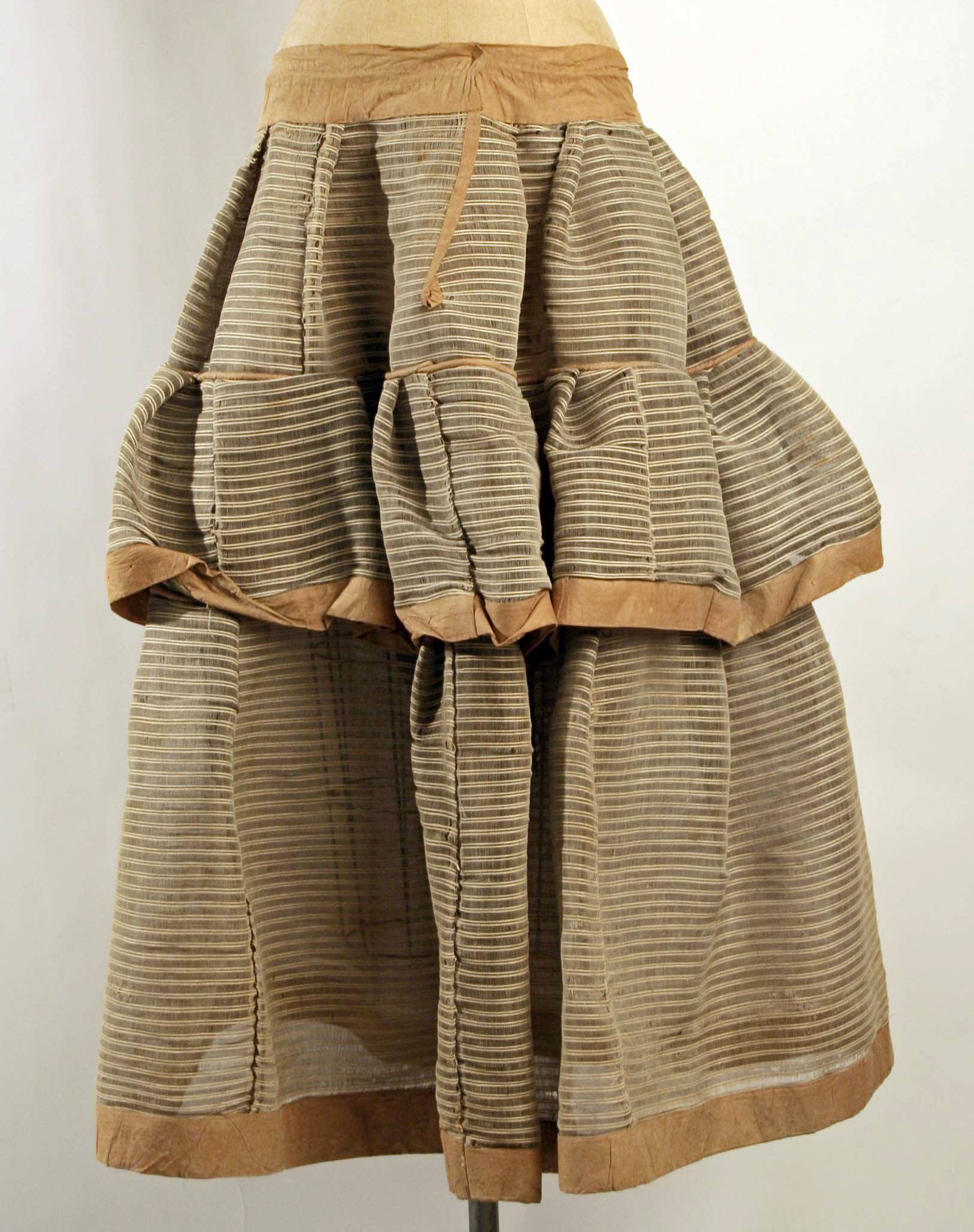 American or European; Petticoat